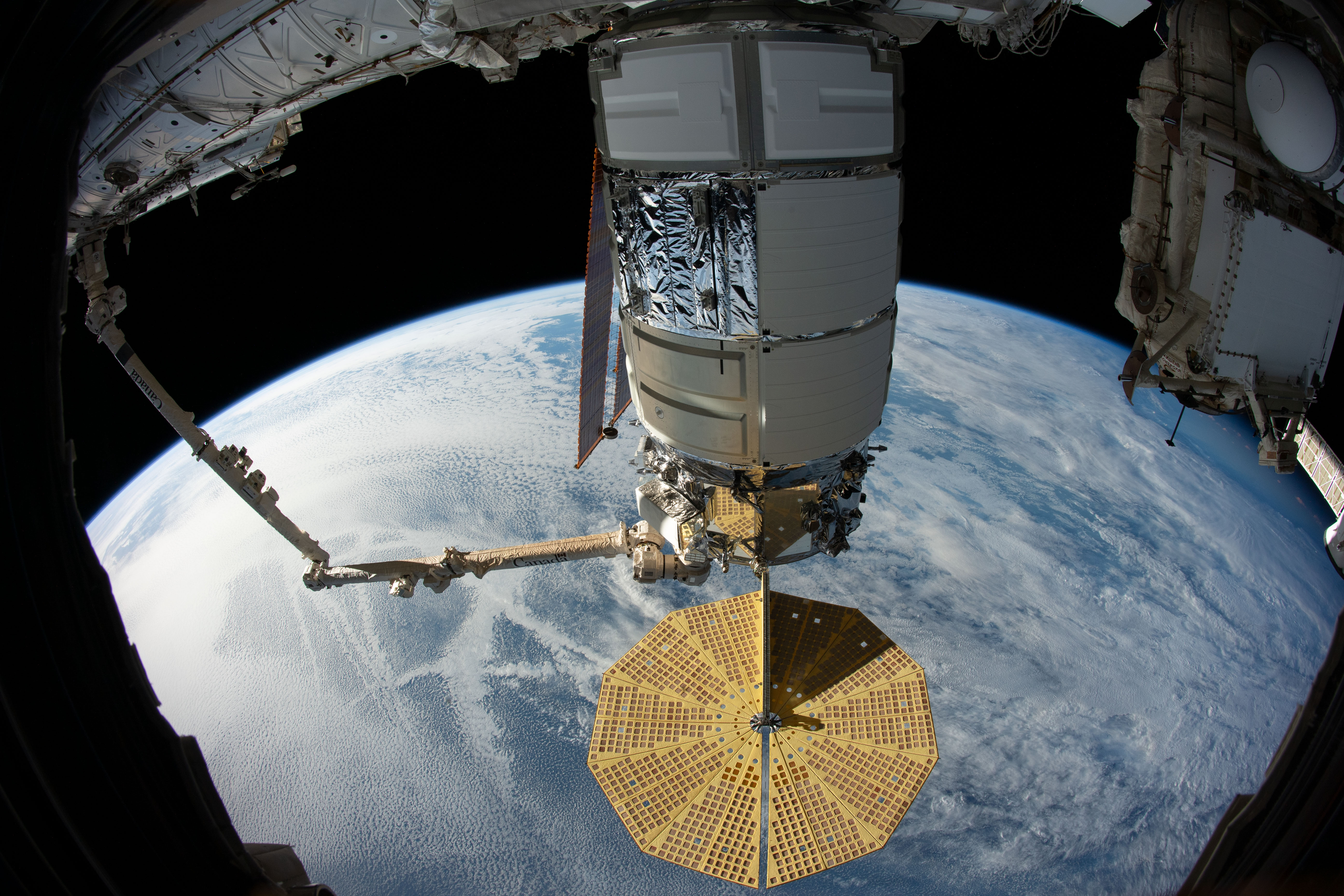 The U.S. Cygnus space freighter from Northrop Grumman is pictured in the grips of the Canadarm2 robotic arm as it was installed to the Unity module for 70 days of cargo transfers.